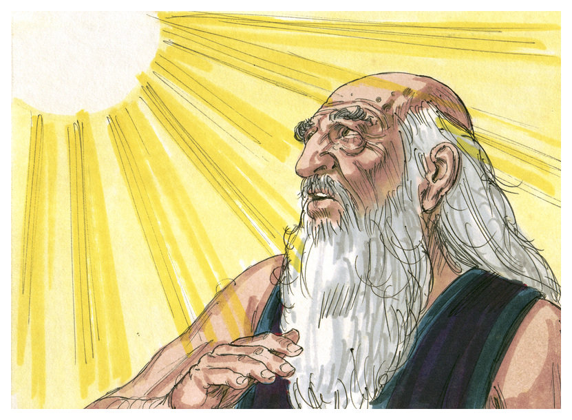 Biblical illustration of Book of Genesis Chapter 22